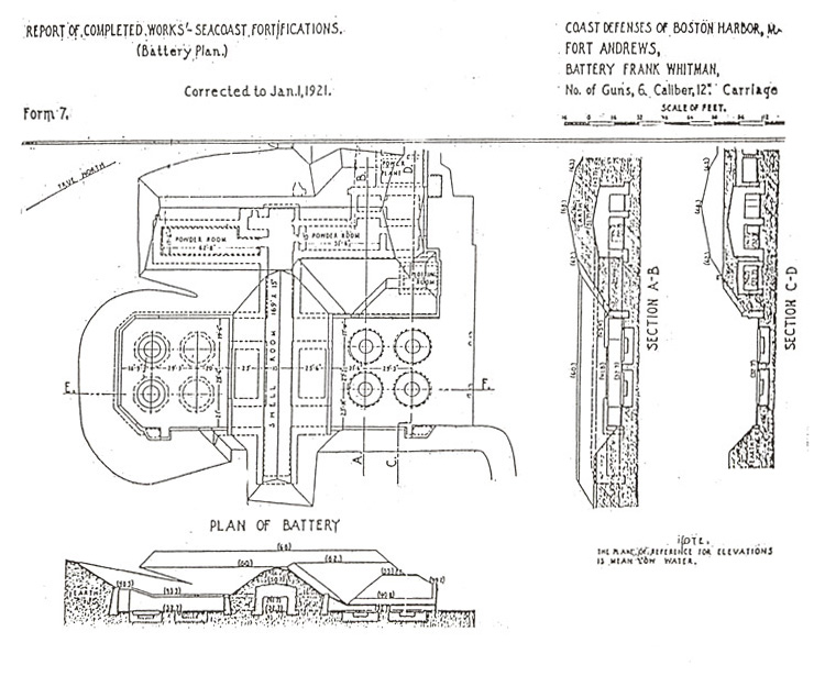 This is a plan of Battery Whitman, dated 1921, from the U.S. Army Corps of Engineers. It shows how this battery was modified into a "Half Abbot Quad" when its two eastern mortar pits were dropped from the project. The pits were also enlarged and the mortars relocated, to provide more room for serving the mortars. Originally designed (in 1897) as a full "Abbot Quad" coast defense mortar battery, Btty Whitman was planned to have four mortar pits with four mortars per pit. Later, the easterly two pits were dropped from the battery project, leaving the battery as shown here, and as seen today (in 2010) at Fort Andrews on Peddocks Island, Boston, Massachusetts. Rotating this image about 115 deg. clockwise would orient it with its top pointing toward true north. Whitman Pit A would then be at the bottom if the plan, bordering the road that leads easterly back toward the parade ground of the fort. Whitman Pit B would be at the top (north). Today Pit B is found "behind" Pit A, and is reached entering Pit A from the road, by walking across it, passing through the portal in the rear pit wall, through the transverse magazine, and finally through a second portal onto the floor of Pit B (which backs up against the hillside). What was designed as the easterly half of the original Abbot Quad design was never built, being transformed instead into the two side-by-side mortar pits of Battery Cushing, which took over the eastern end of the long transverse magazine (and other magazine spaces) from Btty Whitman. The data booths (also called Telautograph booths) are seen as they exist today, built into the westerly walls of both Whitman Pit A and Pit B.